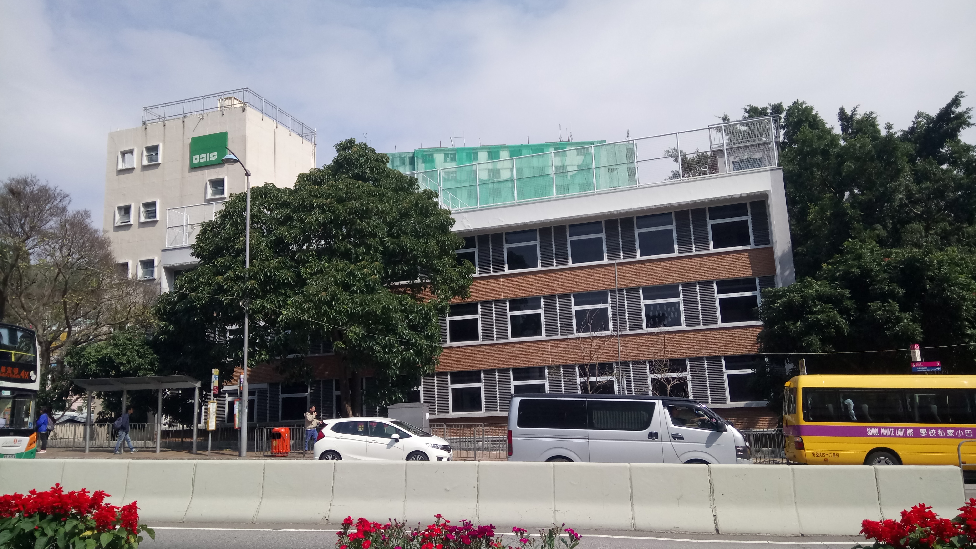 German Swiss International School Pok Fu Lam Campus